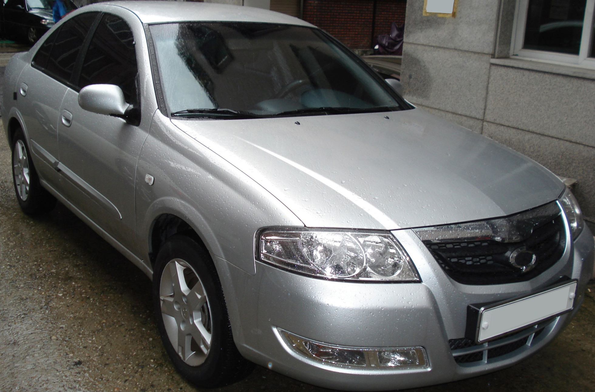 Renault Samsung SM3 CE